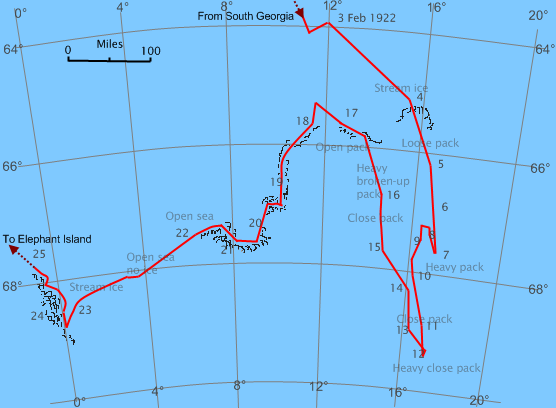 A map of the course taken by Quest from 3rd Feb 1922 to 25th Feb 1922